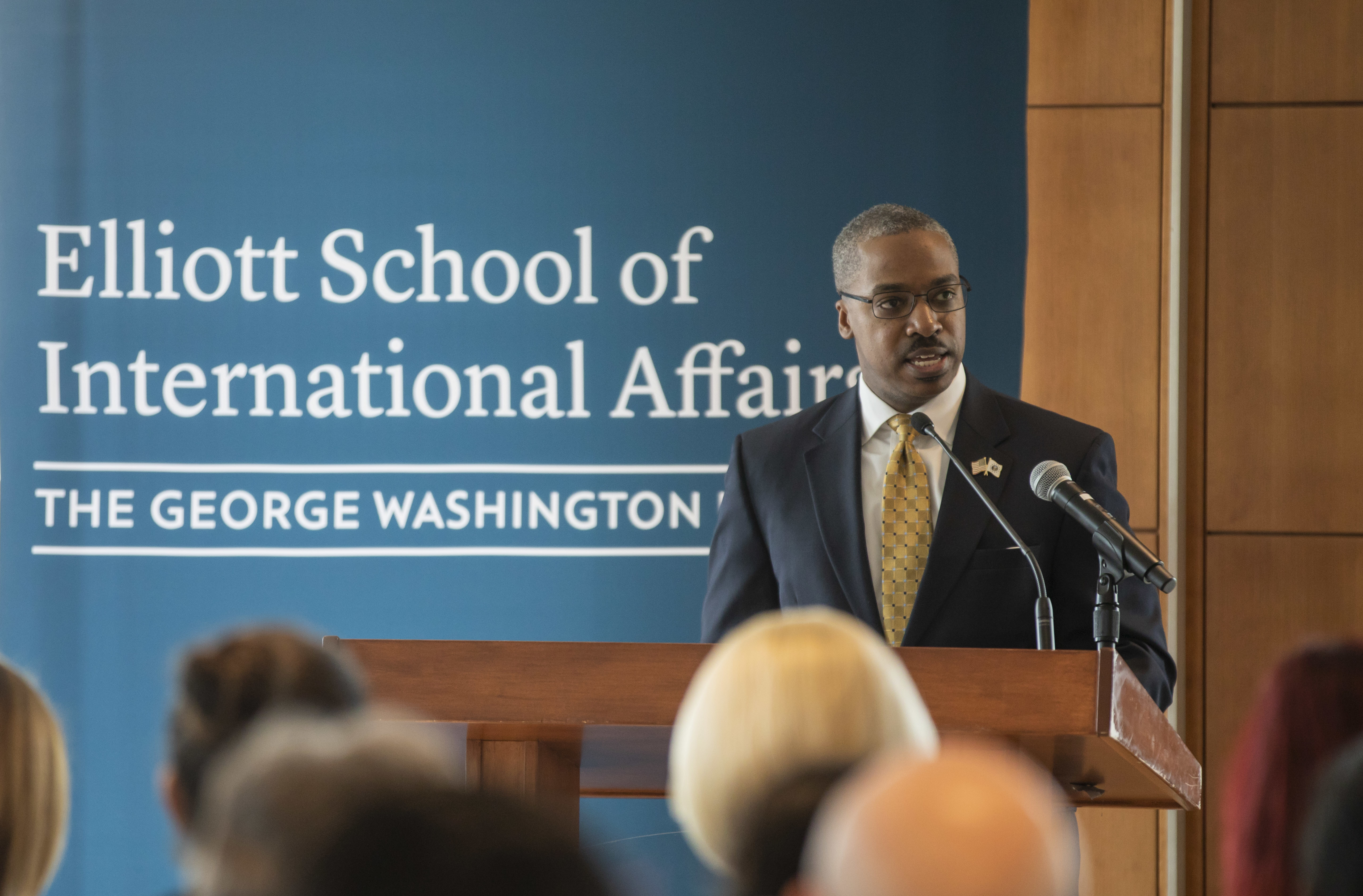 The Elliott School of International Affairs and the Gender Equality Initiative in International Affairs at George Washington University hosted a panel featuring three International Women of Courage (IWOC) honorees and Ambassador Reuben Brigety, Dean of the Elliott School. The IWOC award recognizes women around the globe who have demonstrated exceptional courage and leadership in advocating for peace, justice, human rights, gender equality, and women’s empowerment, often at great personal risk and sacrifice.